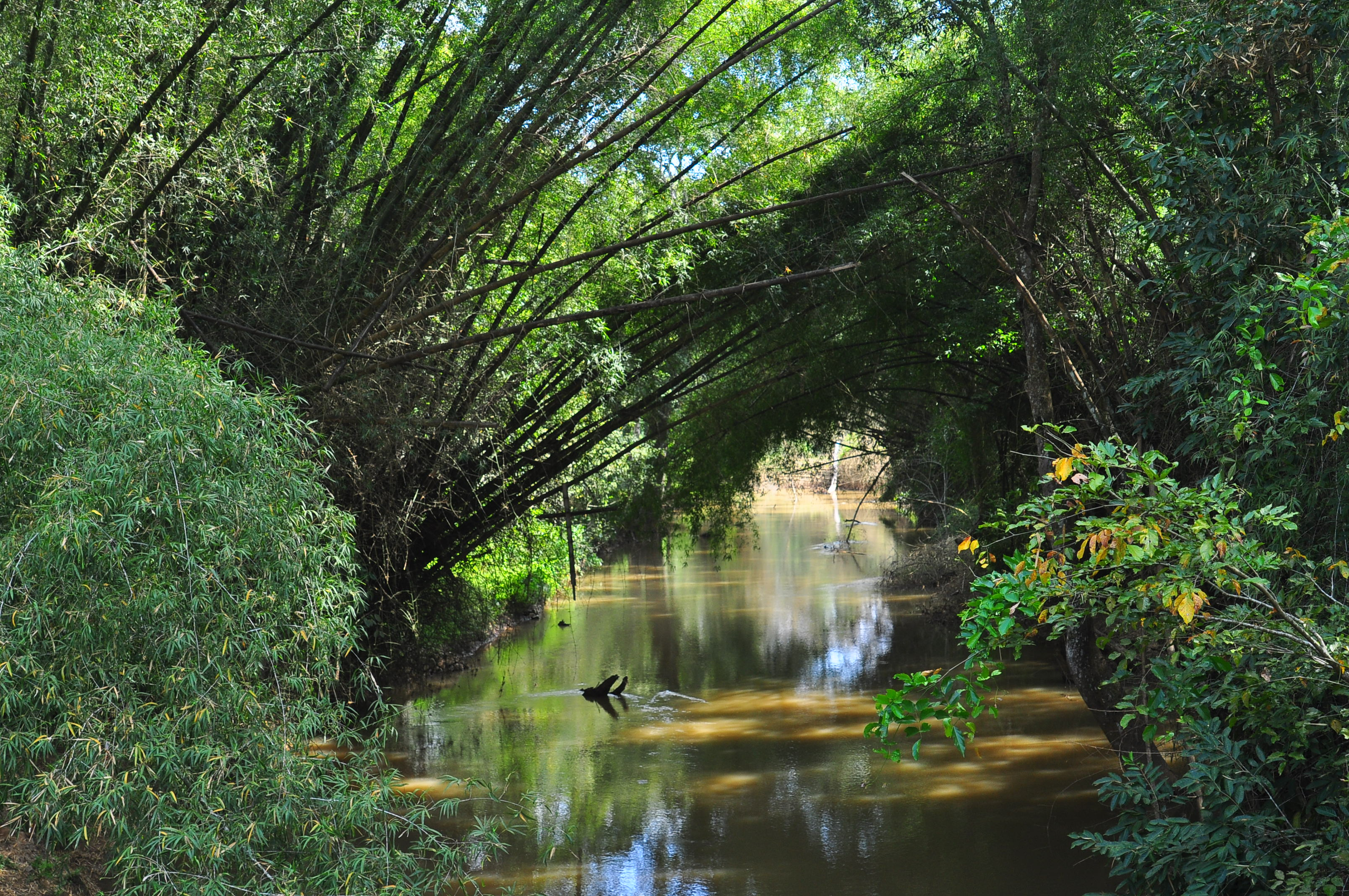 Back water sulthan bathery